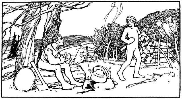 Illustration by Otto Ubbelohde to the fairy tale The Spirit in the Bottle